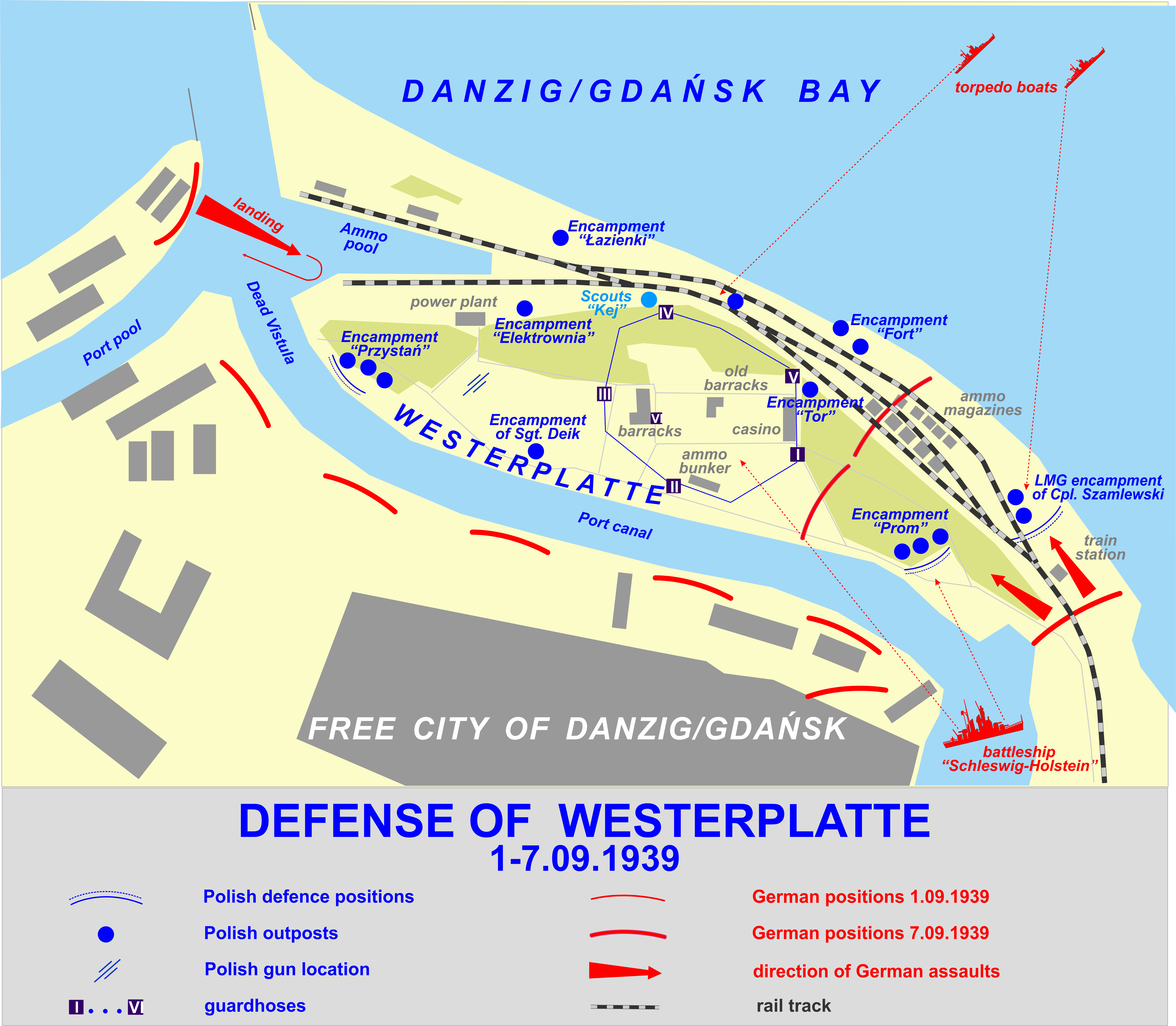 Defense of Westerplatte 1939-09-1—7